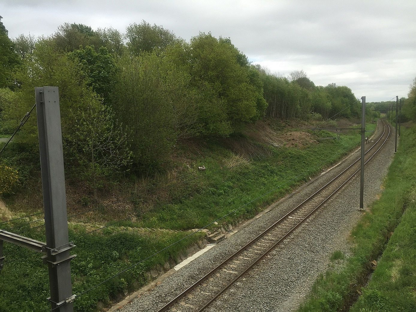 Hill 60, Ypres, Belgium: tracks of Ypres-Comines railway, with Hill 60 on the left. This image shows the relative altitude of Hill 60 when compared to its surrounding landscape.